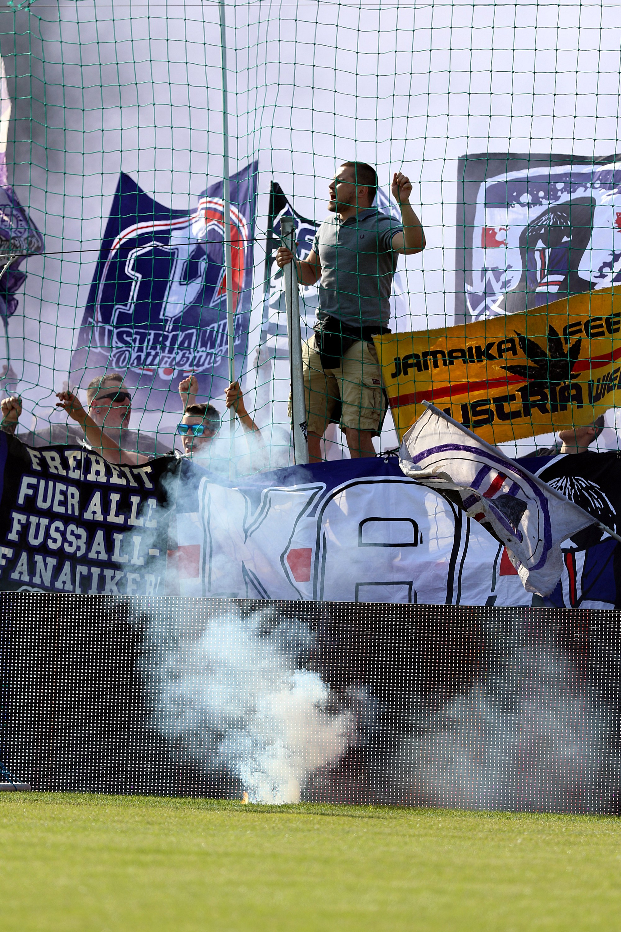 2017–18 Austrian Cup - ASK Ebreichsdorf (blue shirts) vs. FK Austria Wien (orange shirts) 0-0, penaltyscore 3-4. – The photo shows Anhänger des FK Austria Wien Supporters of FK Austria Wien